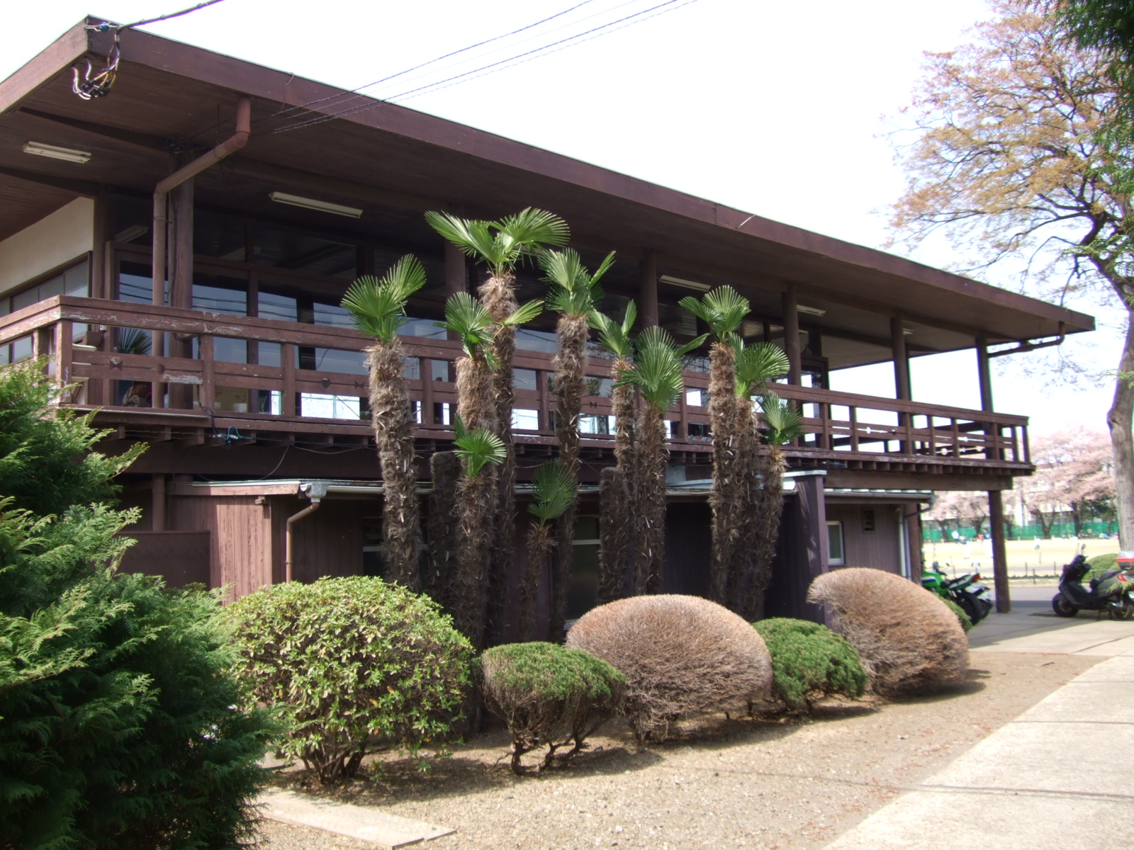 NHK Fujimigaoka Clubhouse, Suginami, Tokyo, Japan. Designed by the Japanese architect Kunio Maekawa.